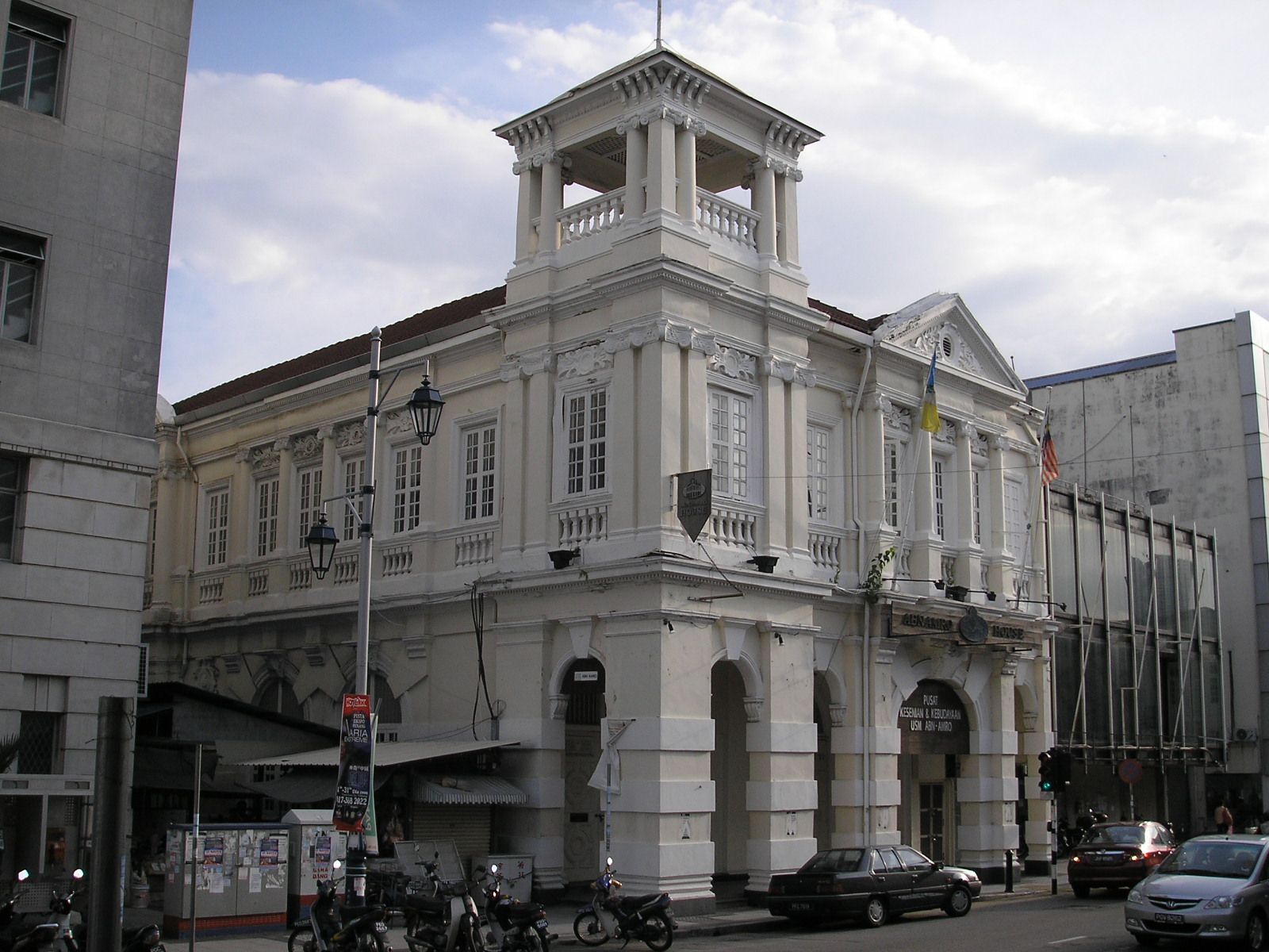 Image of the former The Netherlands Trading Society (today ABN-Amro House), at Beach Street in George Town, Penang.